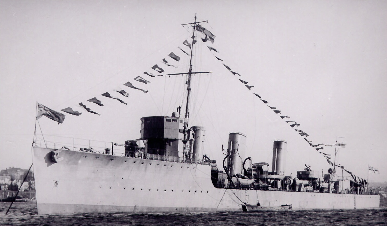 Canadian destroyer HMCS PATRIOT dressed overall